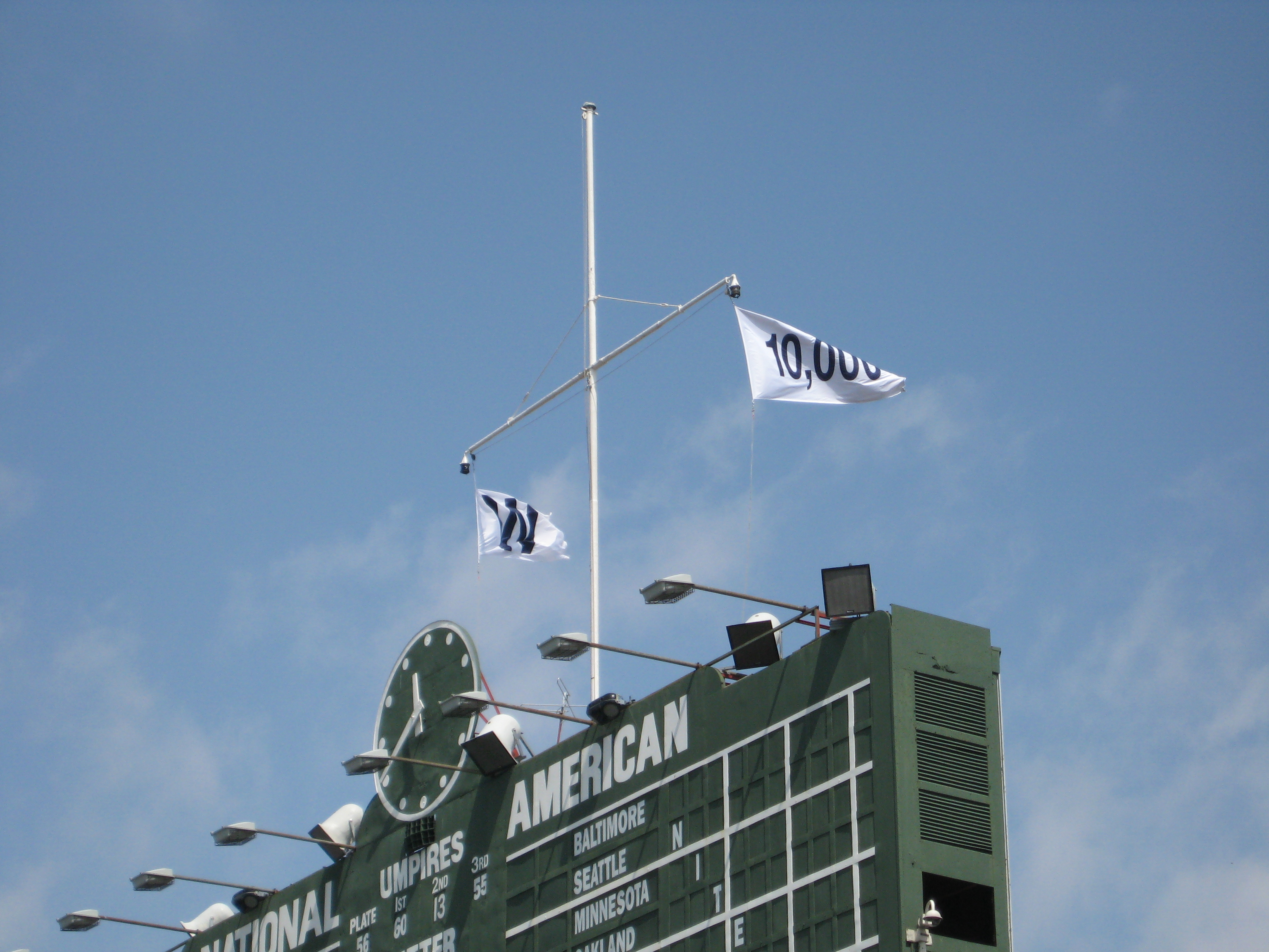 Cubs Win Flag and special 10000 victory flag from inside Wrigley Field